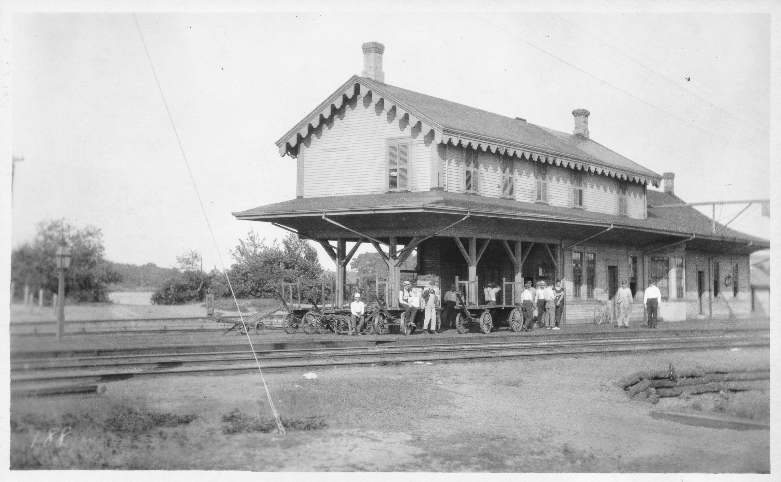 An early postcard of the former Tremont train station in West Wareham, Massachusetts.